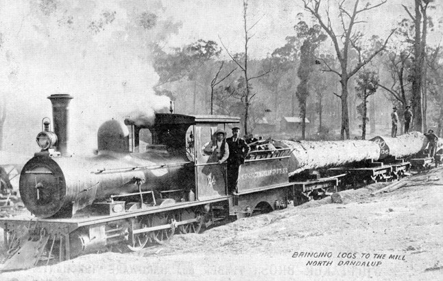 A three quarter view of ex-WAGR M class steam locomotive, no. 24, after its withdrawal and sale to the Whittaker Bros in 1907, seen here hauling logs to the Whittakers Mill, North Dandalup, Western Australia. Some of the information used in this caption is obtained from Gunzburg, Adrian (1984). A History of WAGR Steam Locomotives. Perth: Australian Railway Historical Society (Western Australian Division), p. 16. ISBN 0959969039